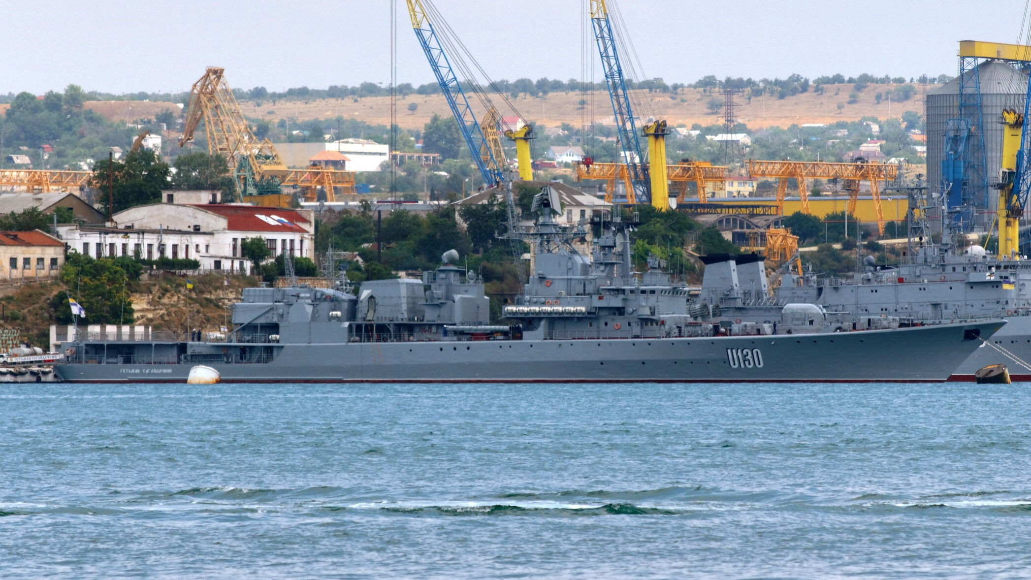 Sevastopol. Frigate "Hetman Sahaydachniy" («Гетьман Сагайдачний»)